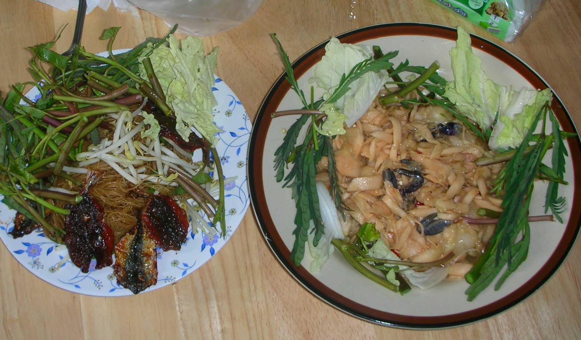 Santol Som tam with raw leafy greens and caramelized dry fish on the plate on the left